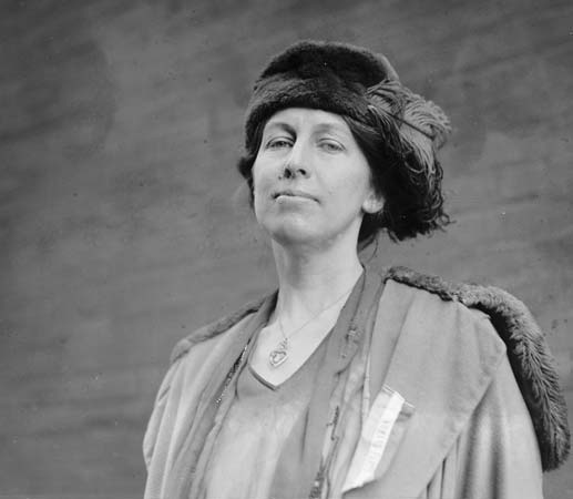 1 negative : glass ; 4 x 5 in. or smaller by National Photo Company